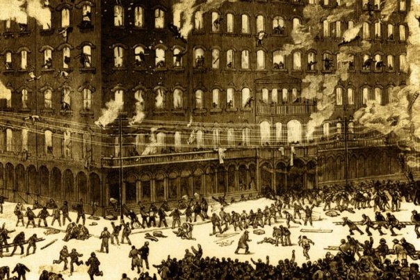 Newhall House hotel fire, January 10, 1883, Milwaukee, WI